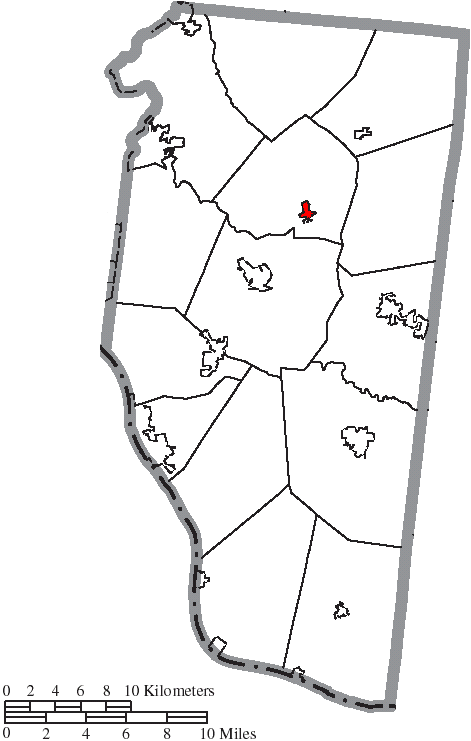 Map of the municipal and township boundaries of Clermont County, Ohio, United States, as of the 2000 census, with the location of the village of Owensville highlighted. Township borders are shown only in unincorporated areas in order to differentiate incorporated and unincorporated areas more clearly.